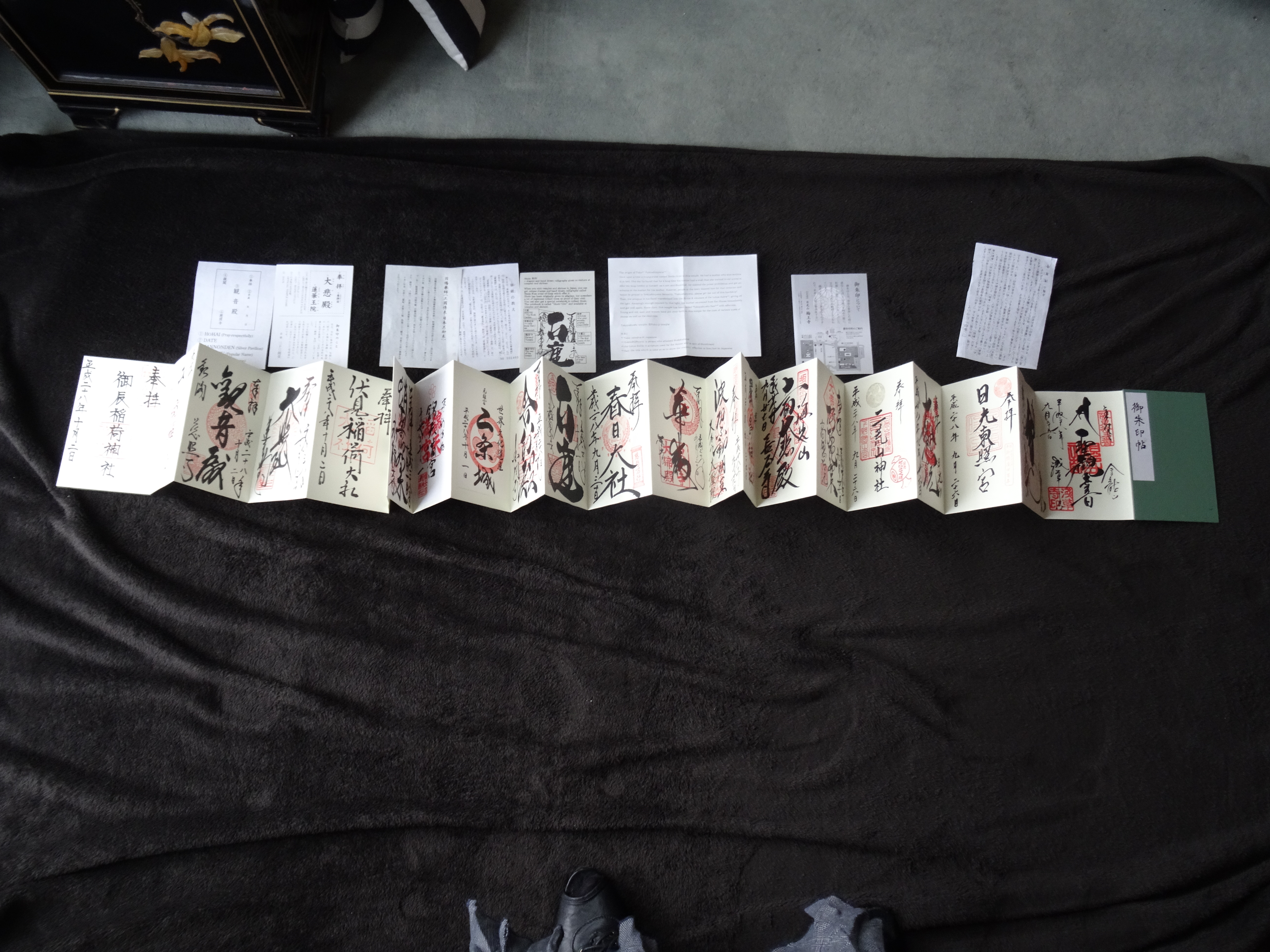 collection of 22 shuin from a trip to Japan end of September / begin of October 2016 with some printed blotting papers